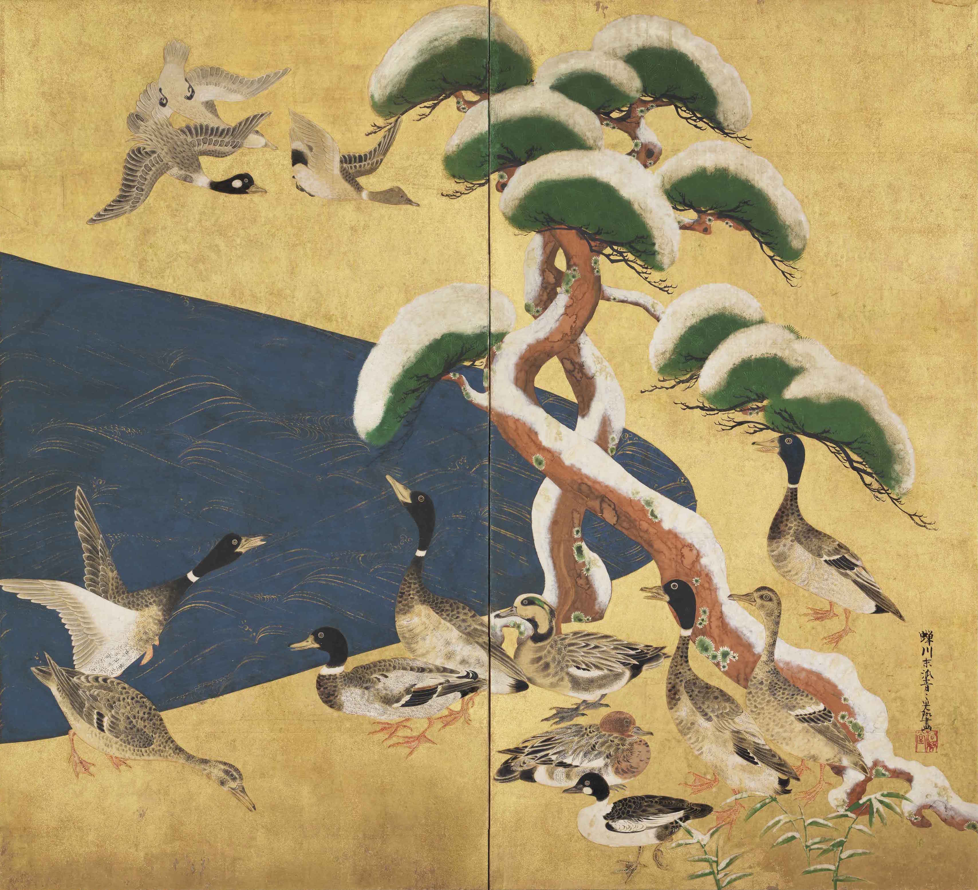 Pines and Birds in the Snow, by Ogata Korin, Okada Museum of Art, Hakone, Kanagawa, Japan